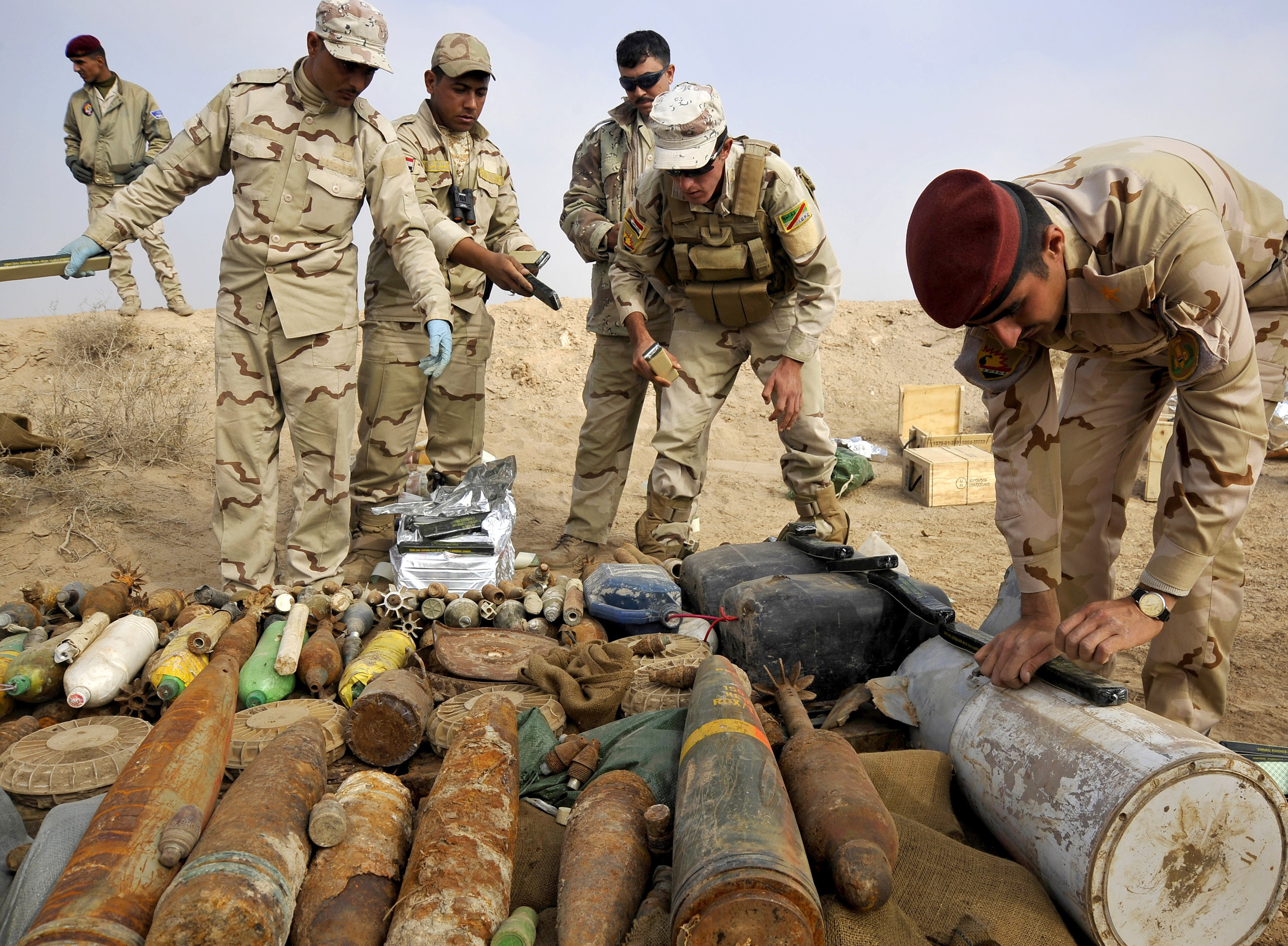 Iraqi Army Soldiers in Mahmudiyah, Iraq, place C-4 explosives on a collection of loose ordnance in preparation for a control detonation, Nov. 23, 2009. The purpose of the control detonation is to mitigate explosives hazards and limit the enemy's war-fighting capabilities in Iraq. (U.S. Air Force photo/Staff Sgt. Angelita Lawrence)